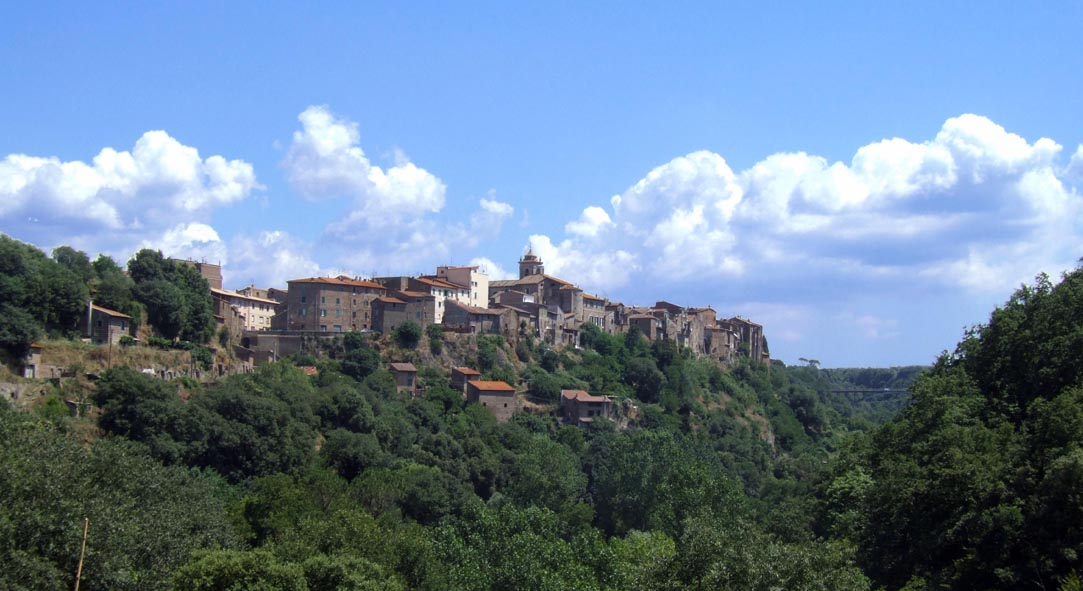 Blera, Latium, Italy